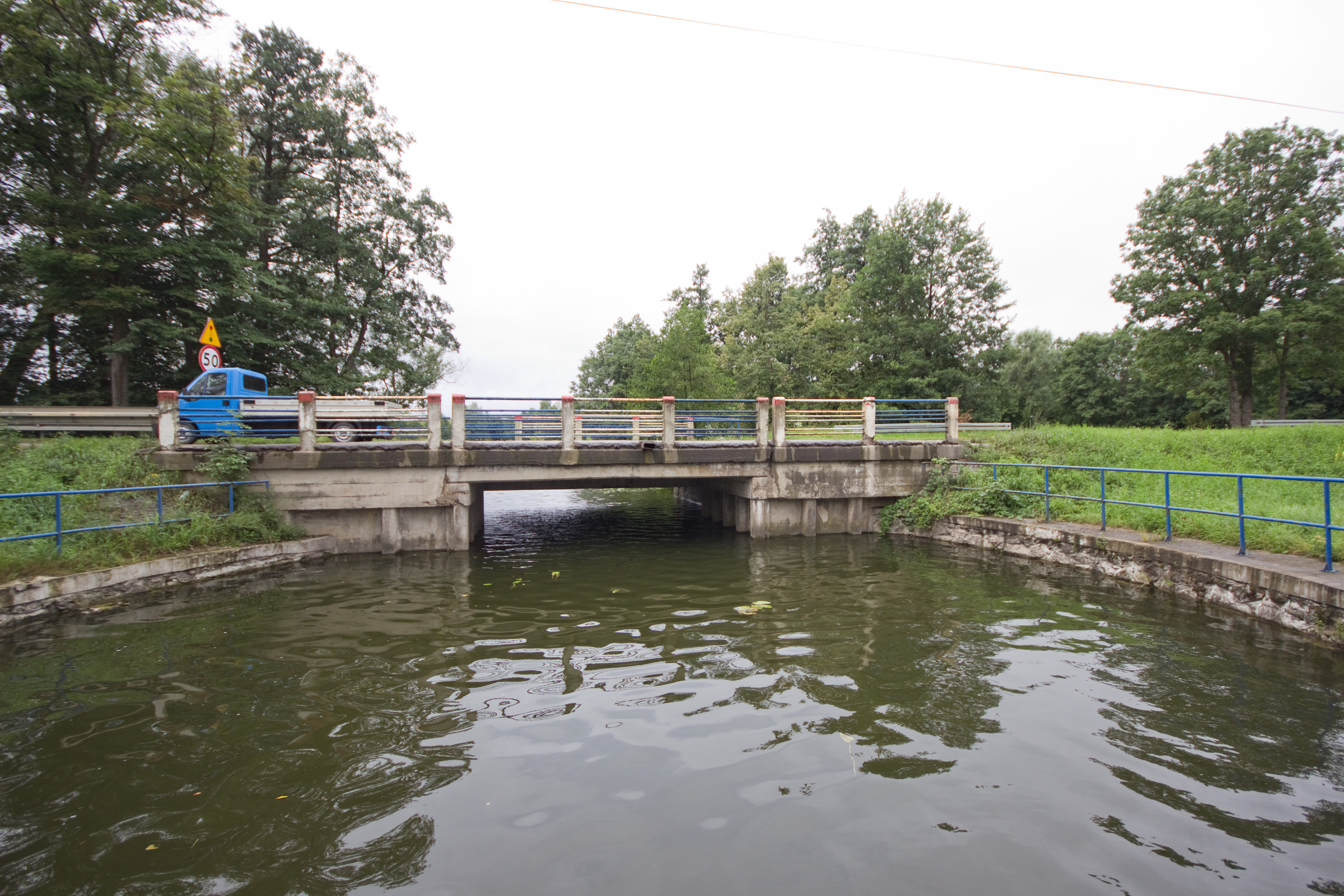 Sedranki, gmina Olecko, powiat olsztyński, Warmian-Masurian Voivodeship